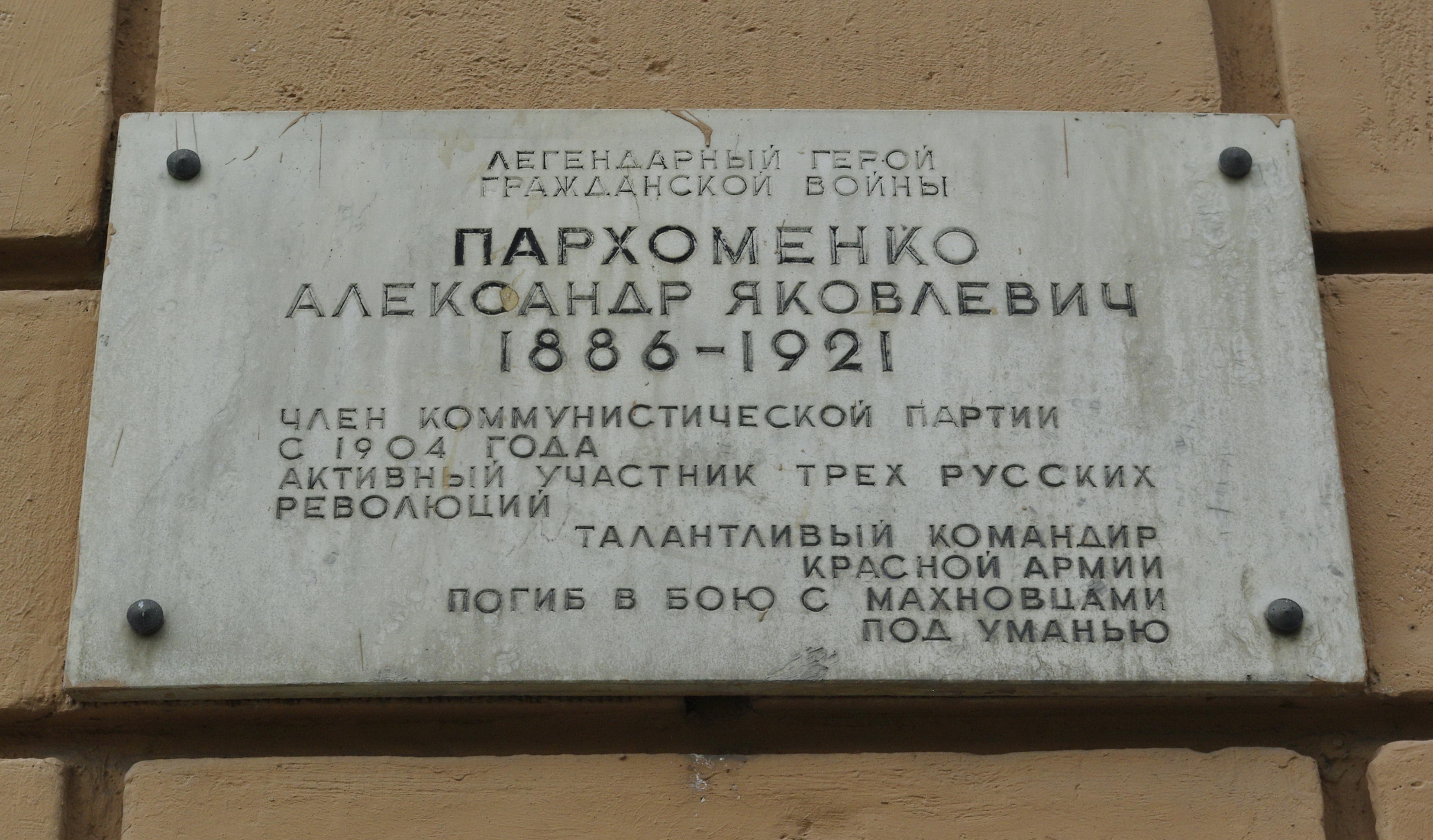 Memorial plaque in honor of Parkhomenko Aleksandr Yakovlevich, commander of the Red Army.